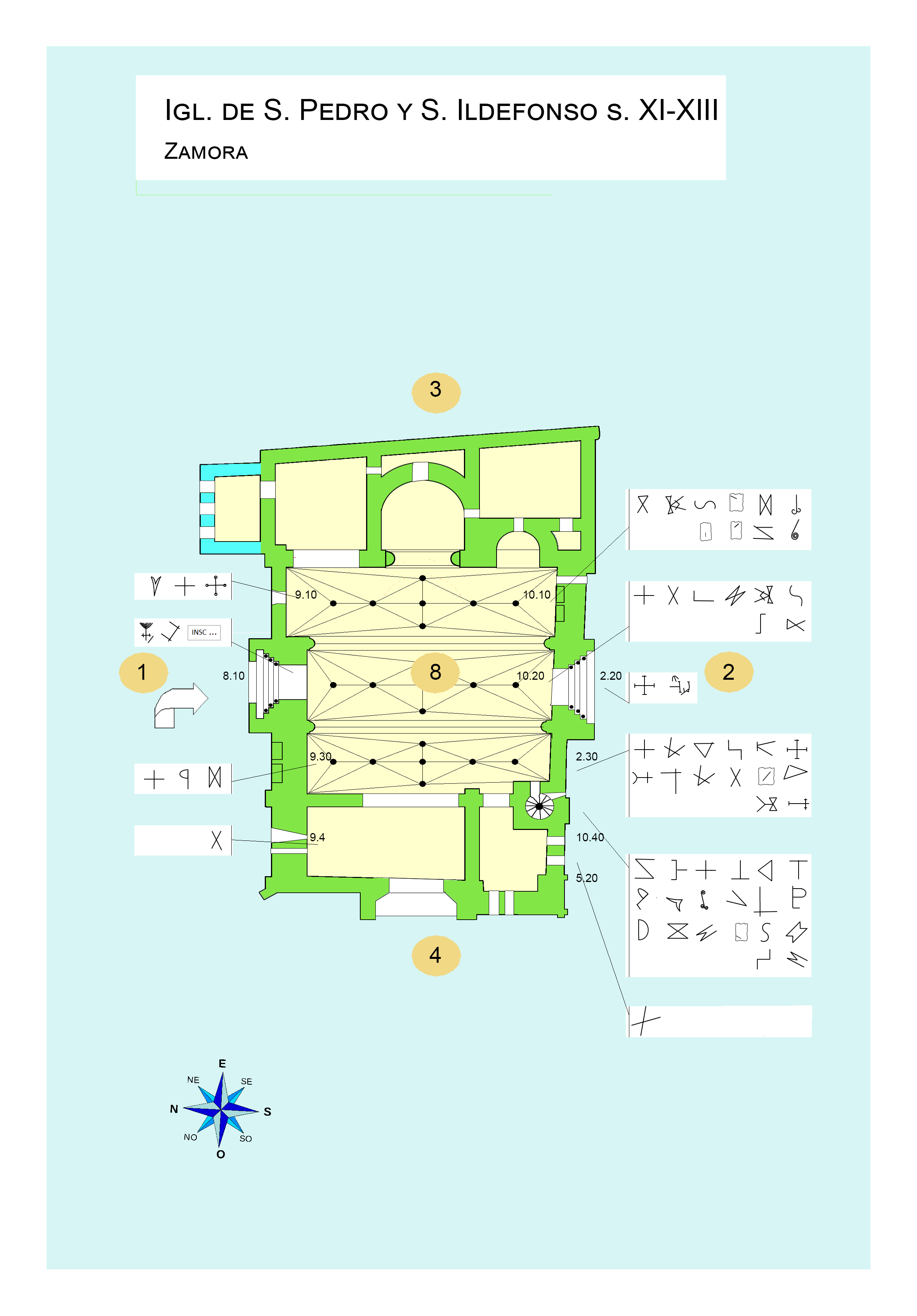 San Pedro y San Ildfonso church, ZAMORA Spain, romanesque s. XI-XIII.